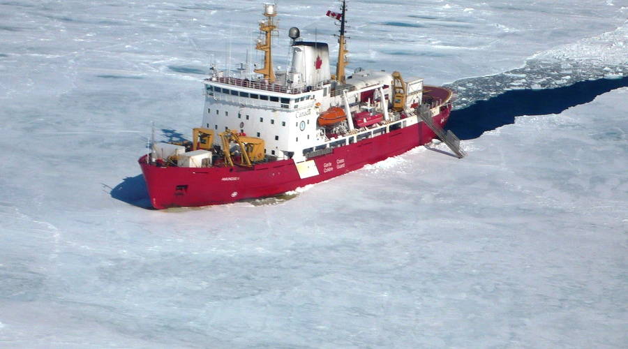 The following is the author's description of the photograph quoted directly from the photograph's Flickr page."Amundsen icebreaker"